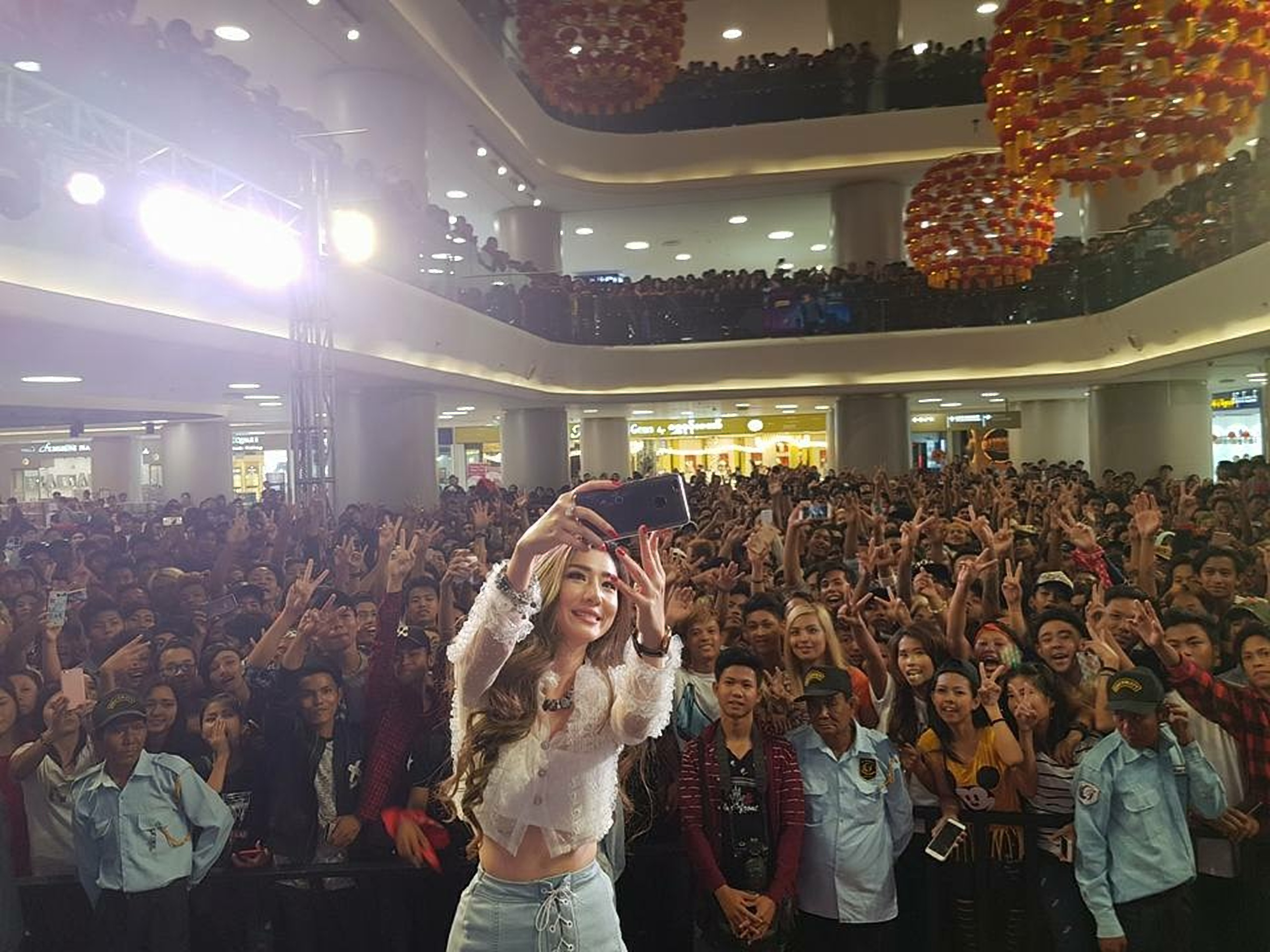 Nan Su performing in Yangon with her fans